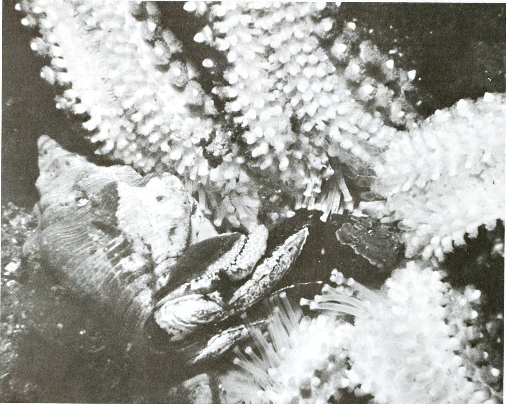 Kelletia kelletii and Pisaster giganteus are jointly feeding on Adula falcata. The sea star's tube feet are touching the whelk's foot.